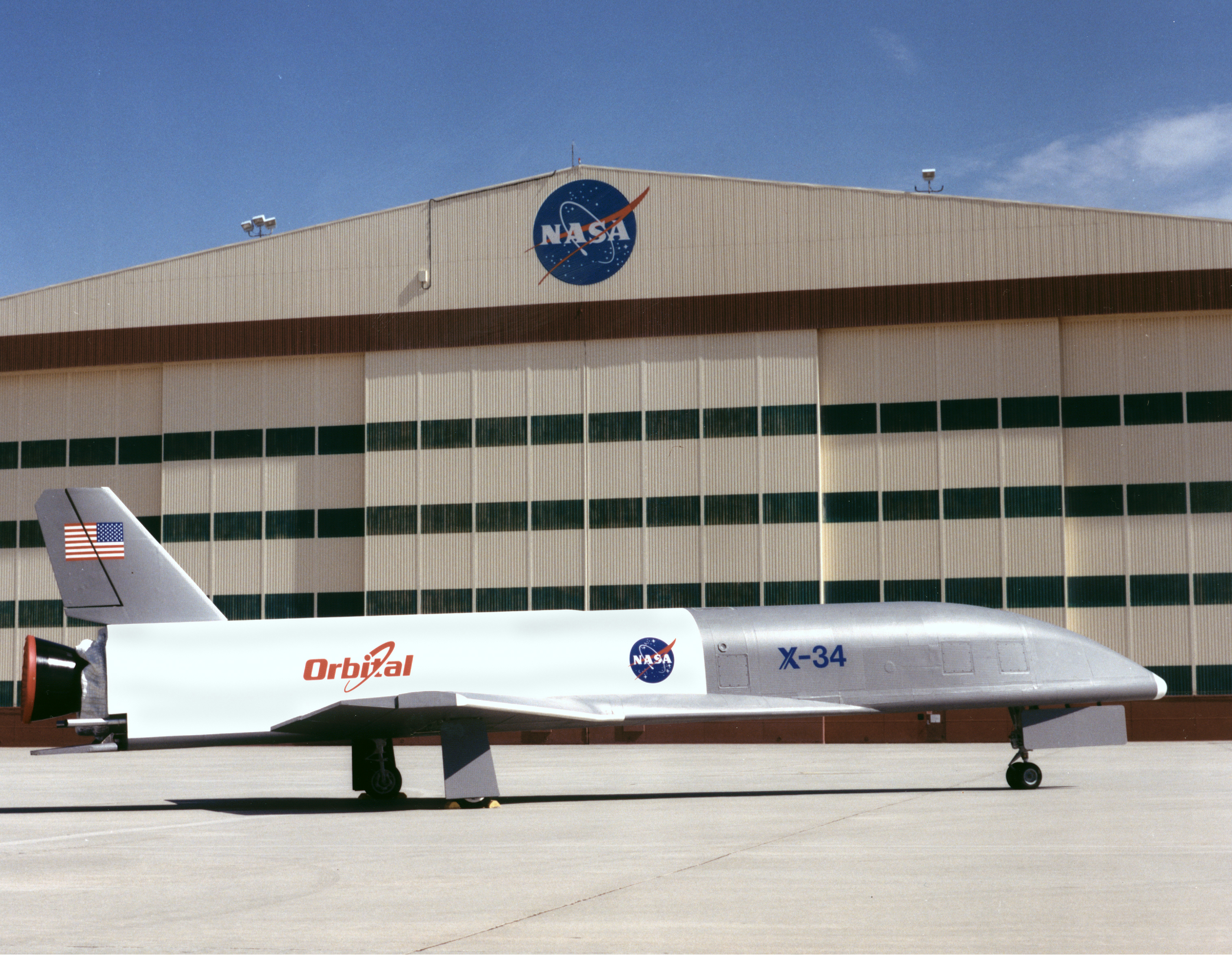 This is the X-34 Technology Testbed Demonstrator being delivered to NASA Dryden Flight Research Center, Edwards, California. The X-34 will demonstrate key vehicle and operational technologies applicable to future low-cost reusable launch vehicles.